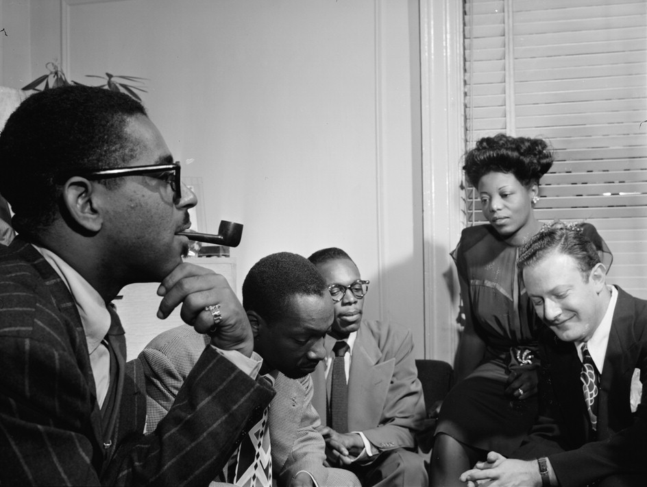 Dizzy Gillespie, Tadd Dameron, Hank Jones, Mary Lou Williams and Milt Orent in William's apartment, ca. August 1947. Photography by William P. Gottlieb